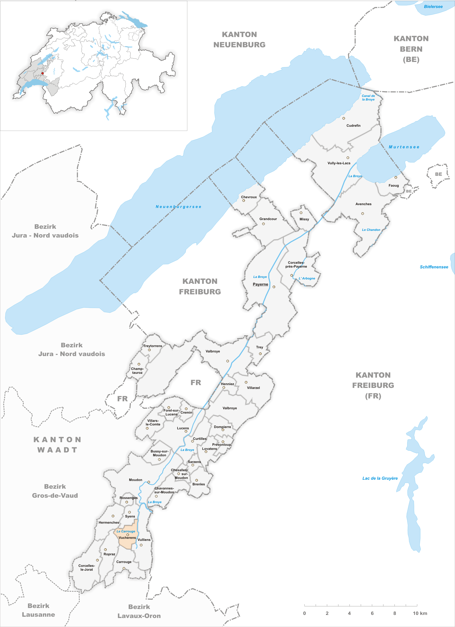 Municipality Vucherens